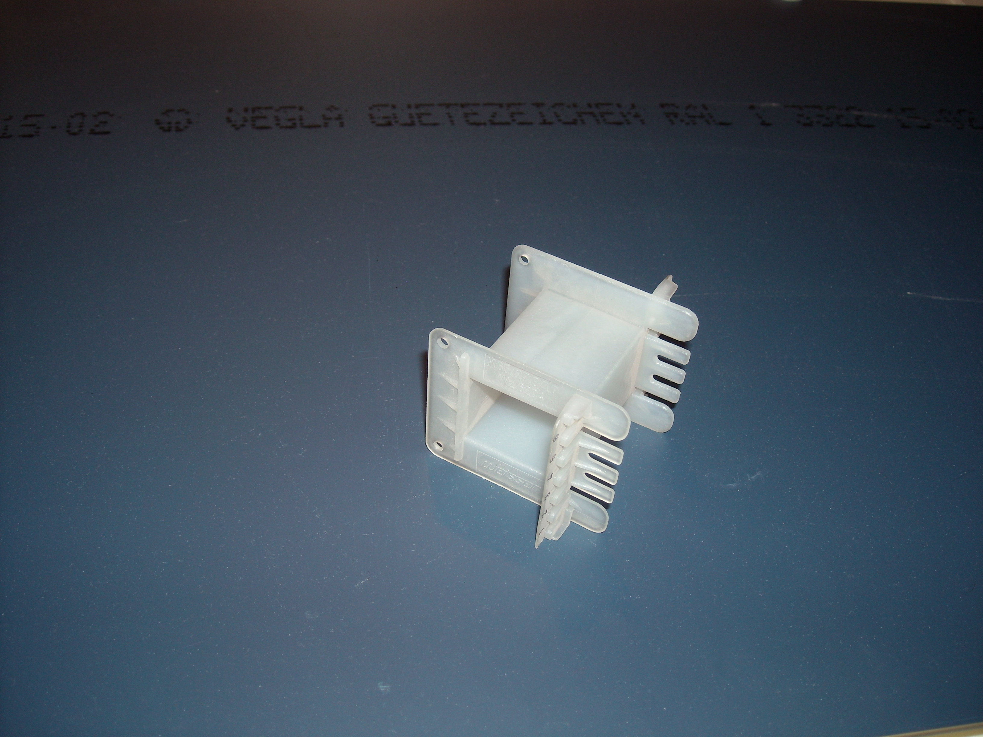 Coil frame/small transformer